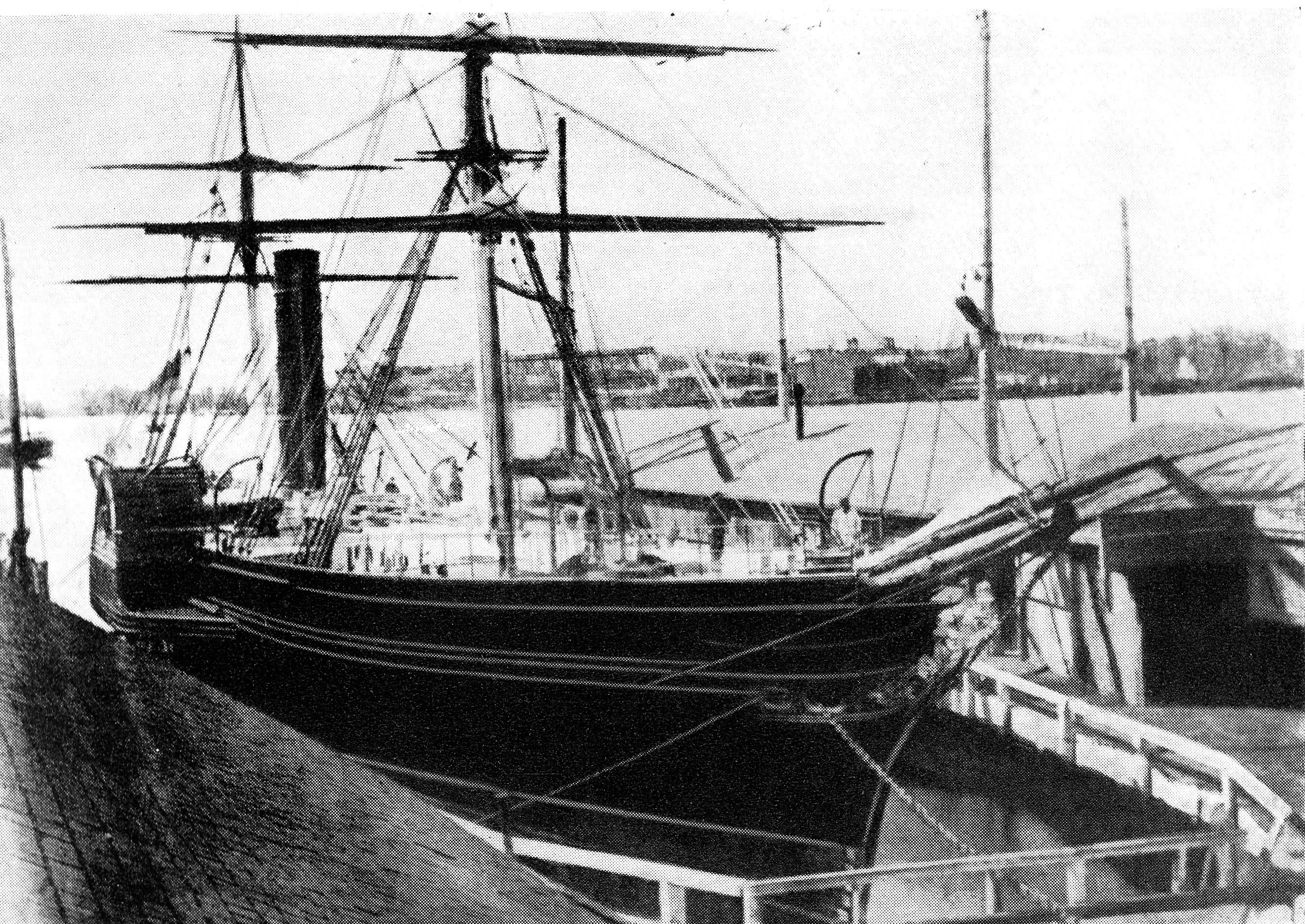 RMS Europa